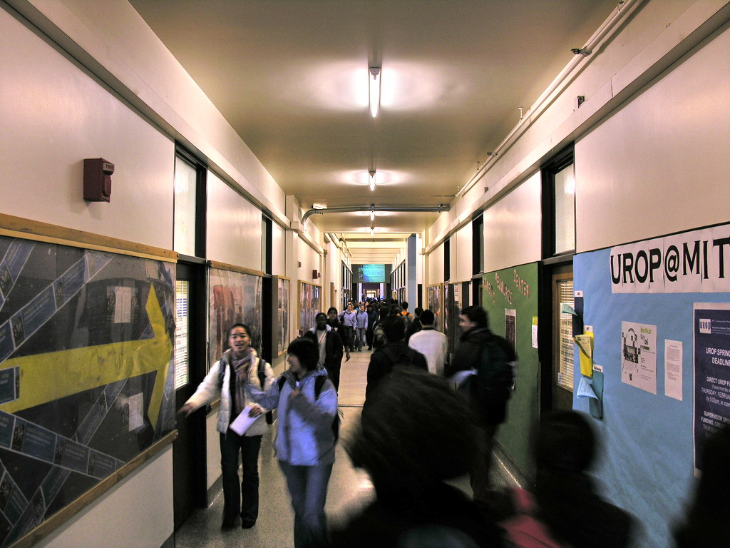 The Infinite Corridor that runs through Building 3 of the Massachusetts Institute of Technology. (Source: MIT: The Campus Guide p.206)